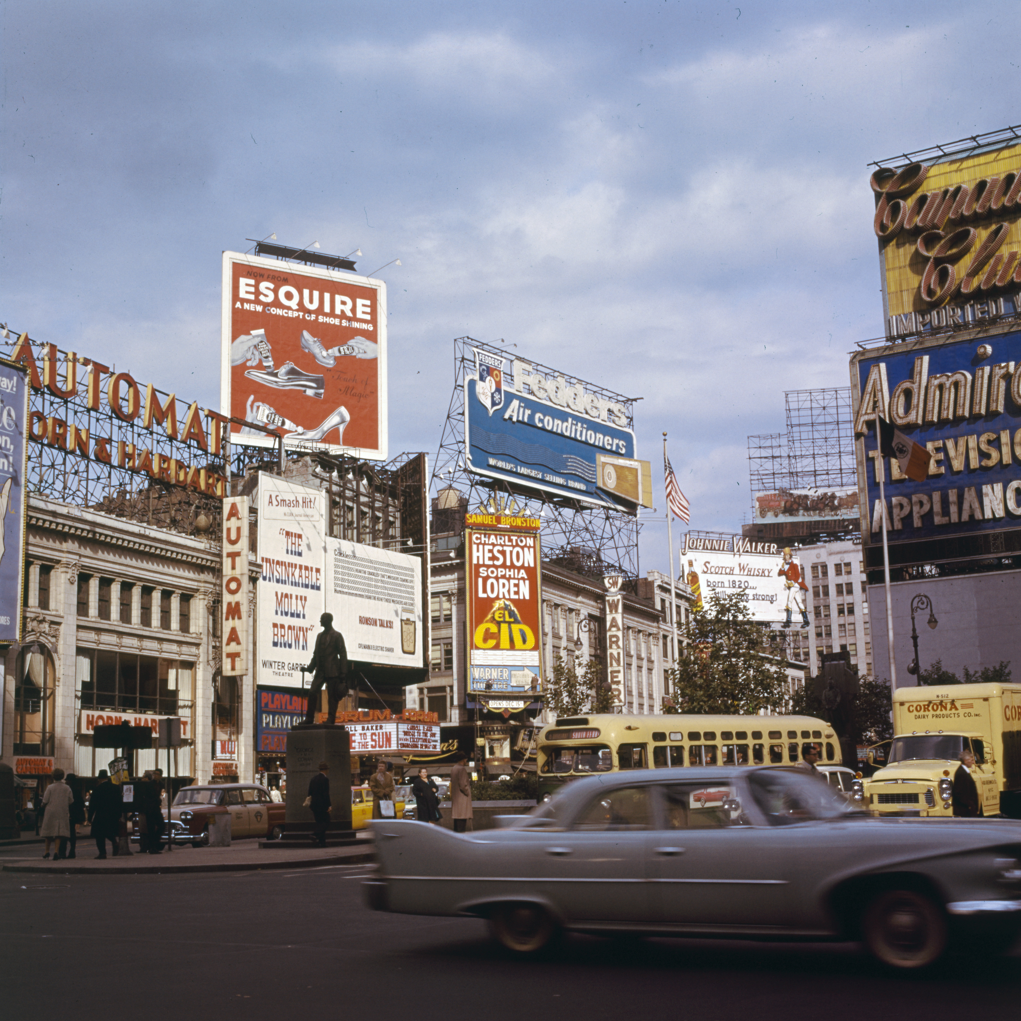 USA, New York. 1960th. Times Square and Broadway